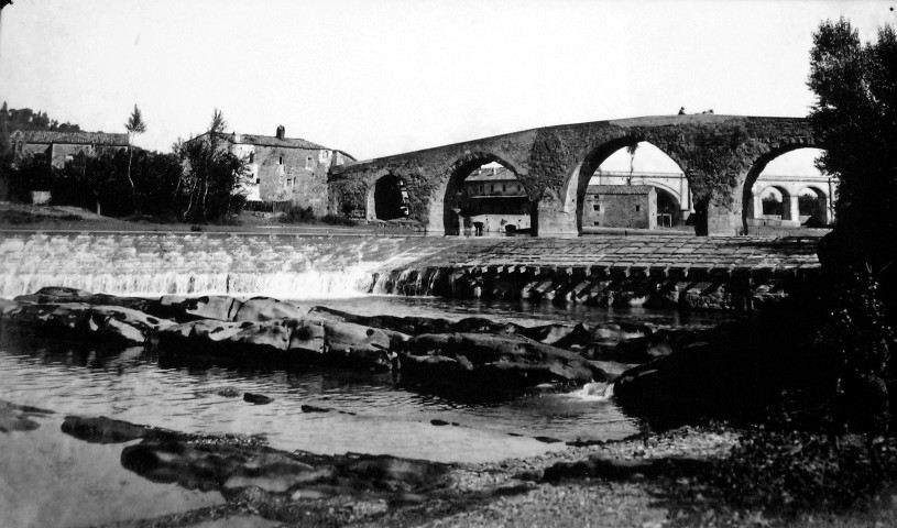 picture of the old Ponte Vecchio bridge, Ponte S. Giovanni, Perugia, Umbria, Italia